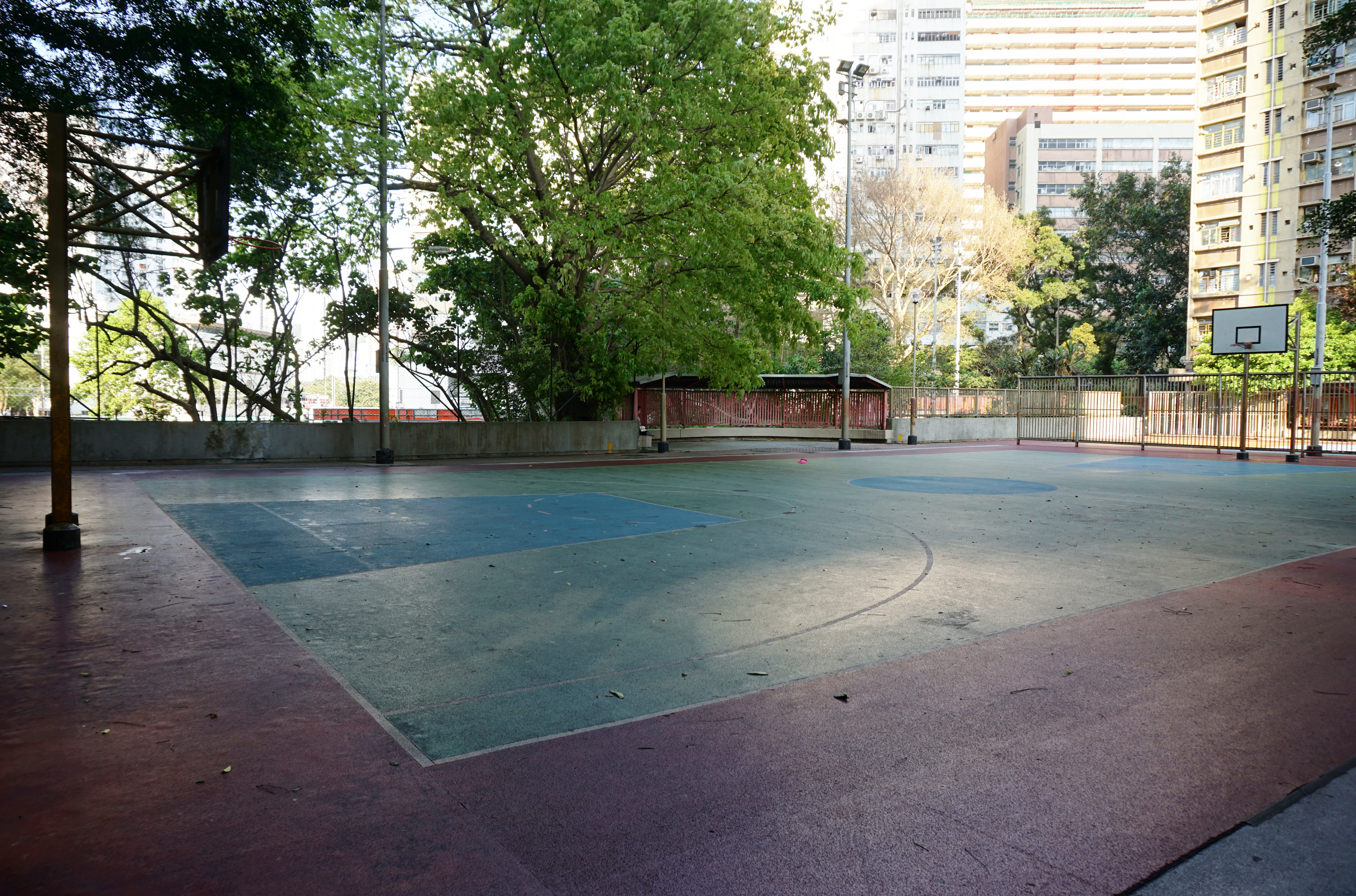 Shan King Estate in Tuen Mun, Hong Kong.